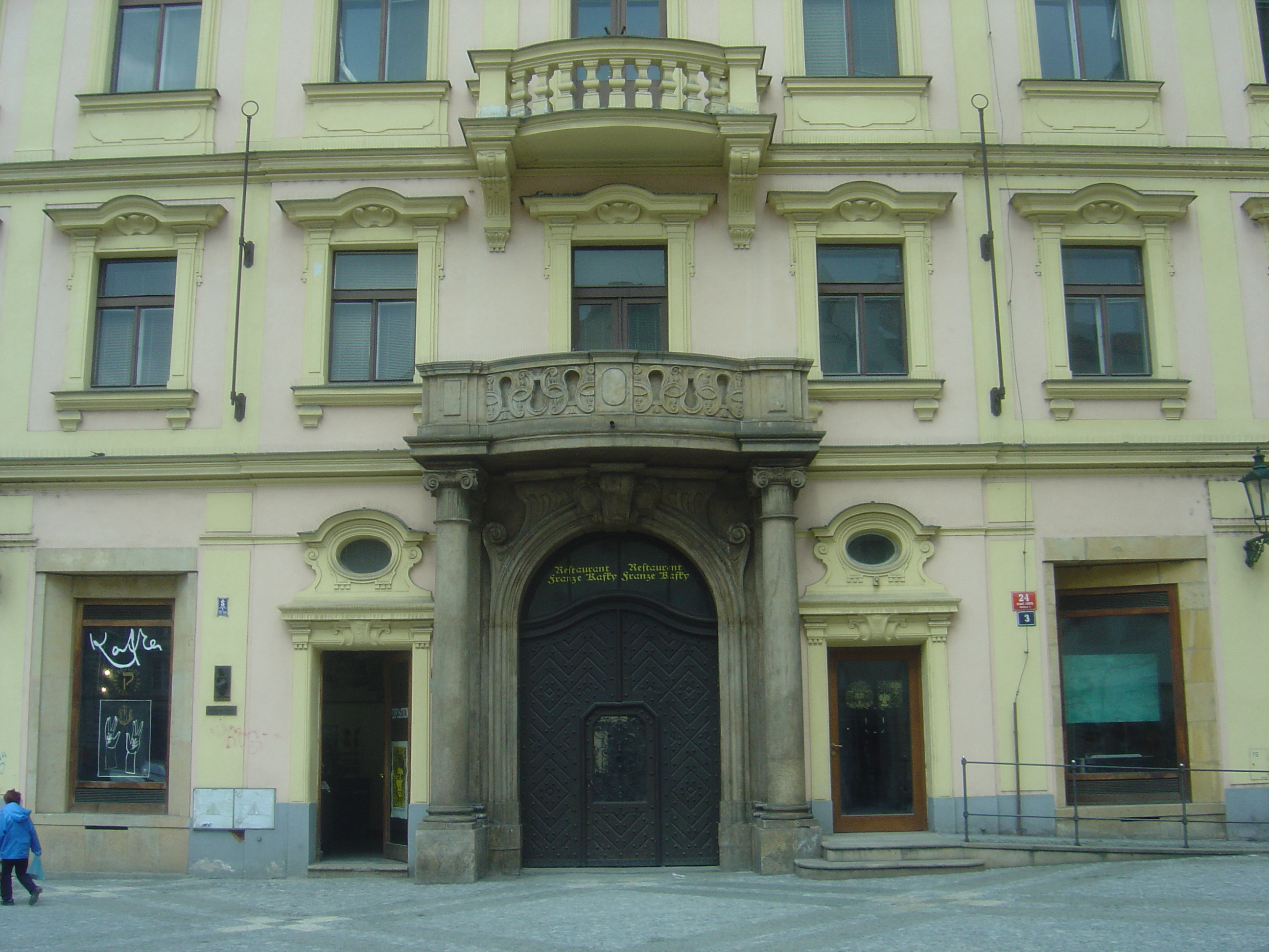 House on the Franz Kafka Square, Prague